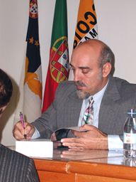 Photo of Manuel Rosa Columbus historian and author of "O Mistério Colombo Revelado" (Ésquilo, Lisboa, 2006).